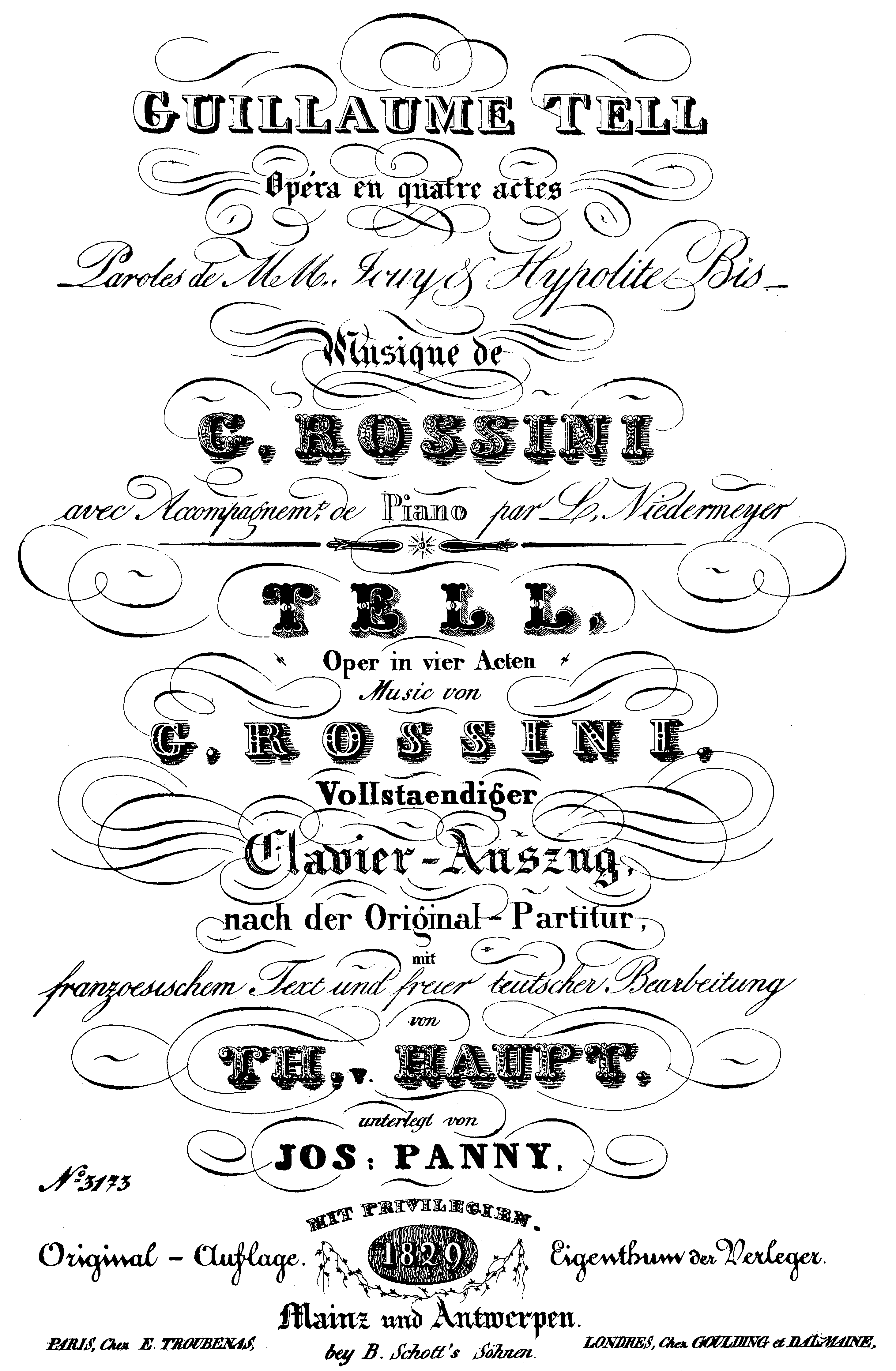 Gioachino Rossini - Guillaume Tell - title page of the vocal score - Paris 1829